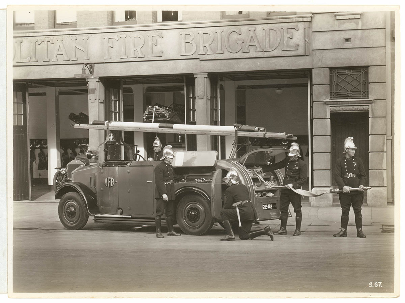 Format: Photograph Find more detailed information about this photograph: .au/item/itemDetailPaged.aspx?itemID=421397 From the collection of the State Library of New South Wales